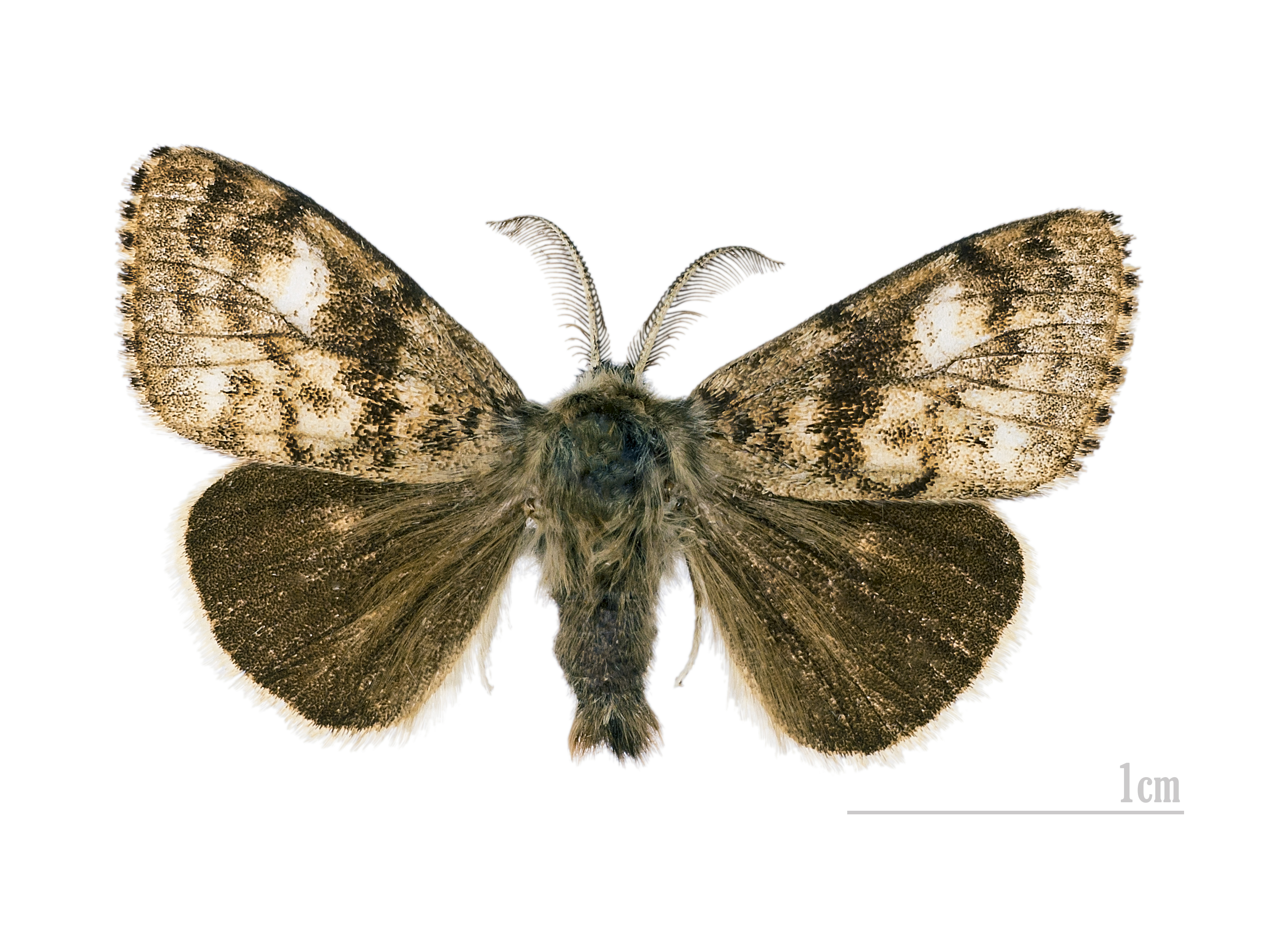 Gynaephora selenitica. Dorsal side